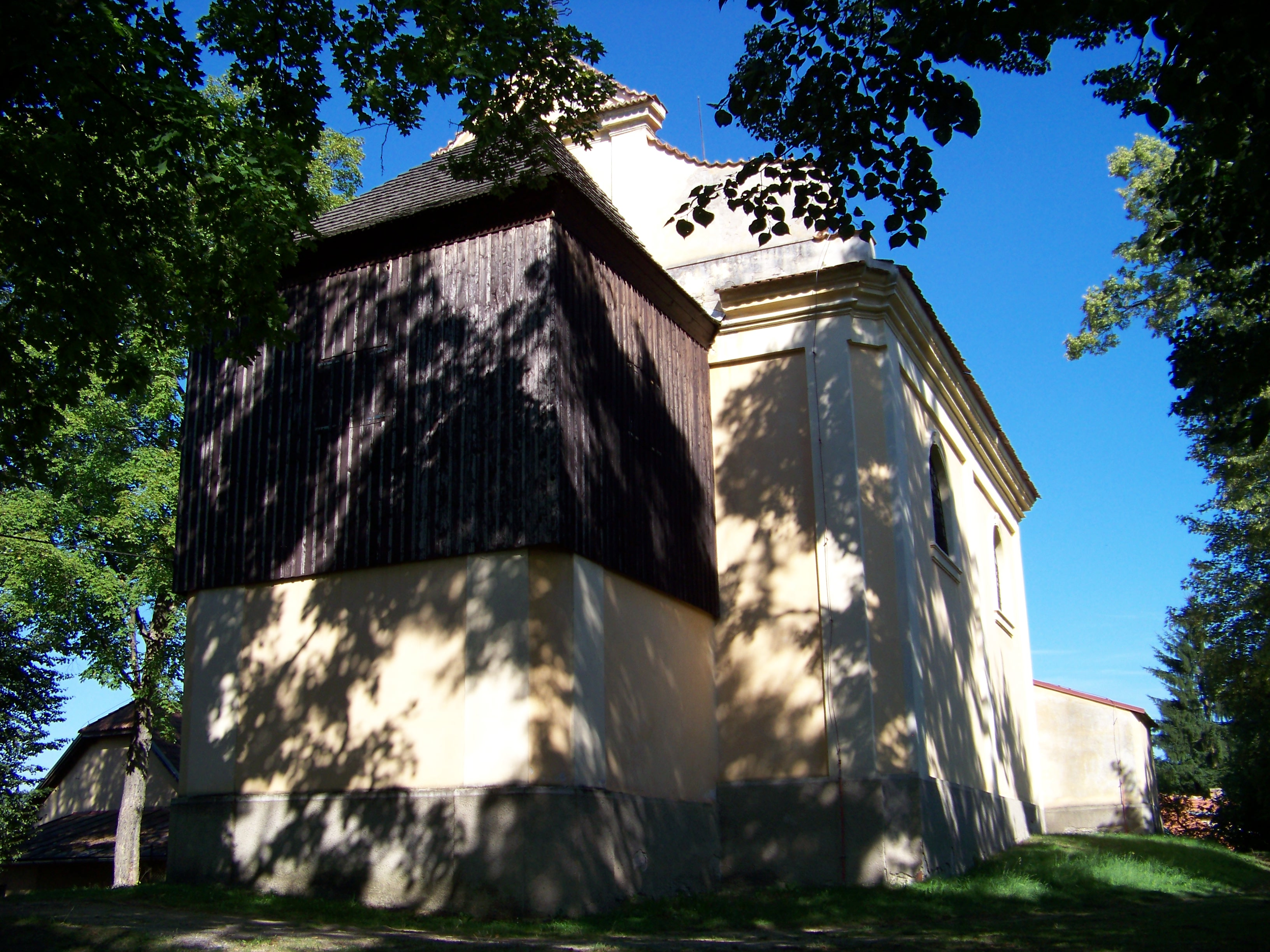 Stříbrná Skalice, Prague-East District, Central Bohemian Region, the Czech Republic. Na hradě, church of Saint John of Nepomuk with a wooden bell tower.